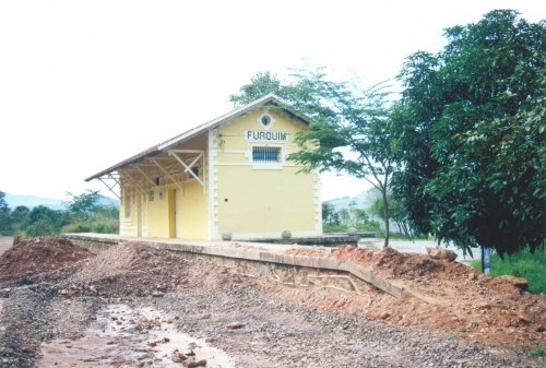 Churches in the district of Furquim, Minas Gerais, Brazil.